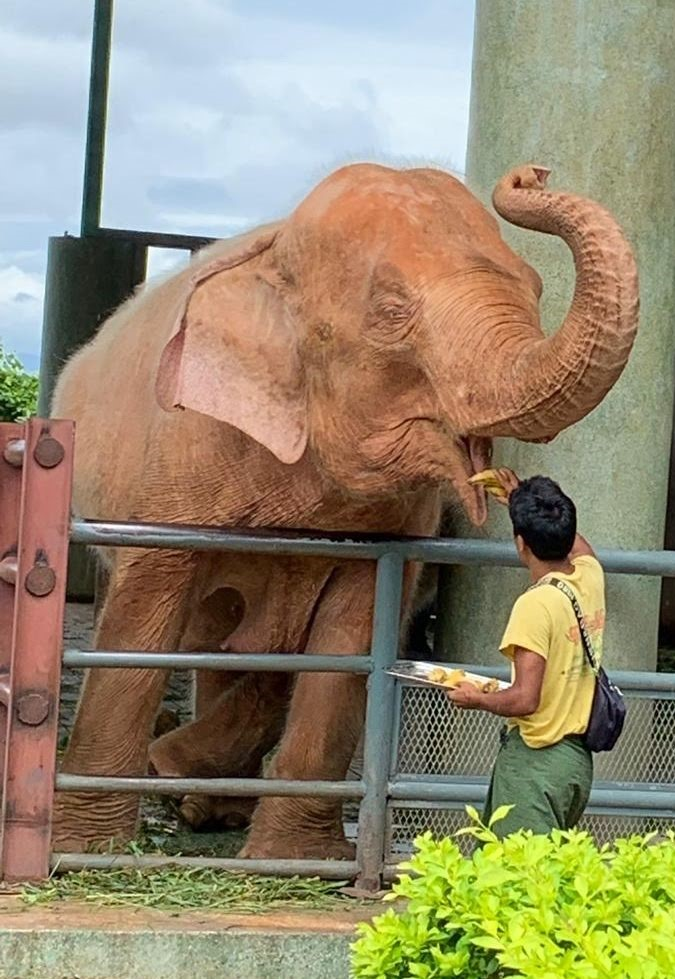 White elephant at Uppatasanti pagoda, Naypyitaw, Myanmar